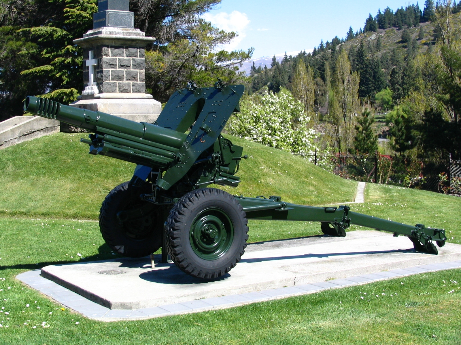 L5 Pack Howitzer at the War Memorial on Matau Street, Clyde, Central Otago, New Zealand.